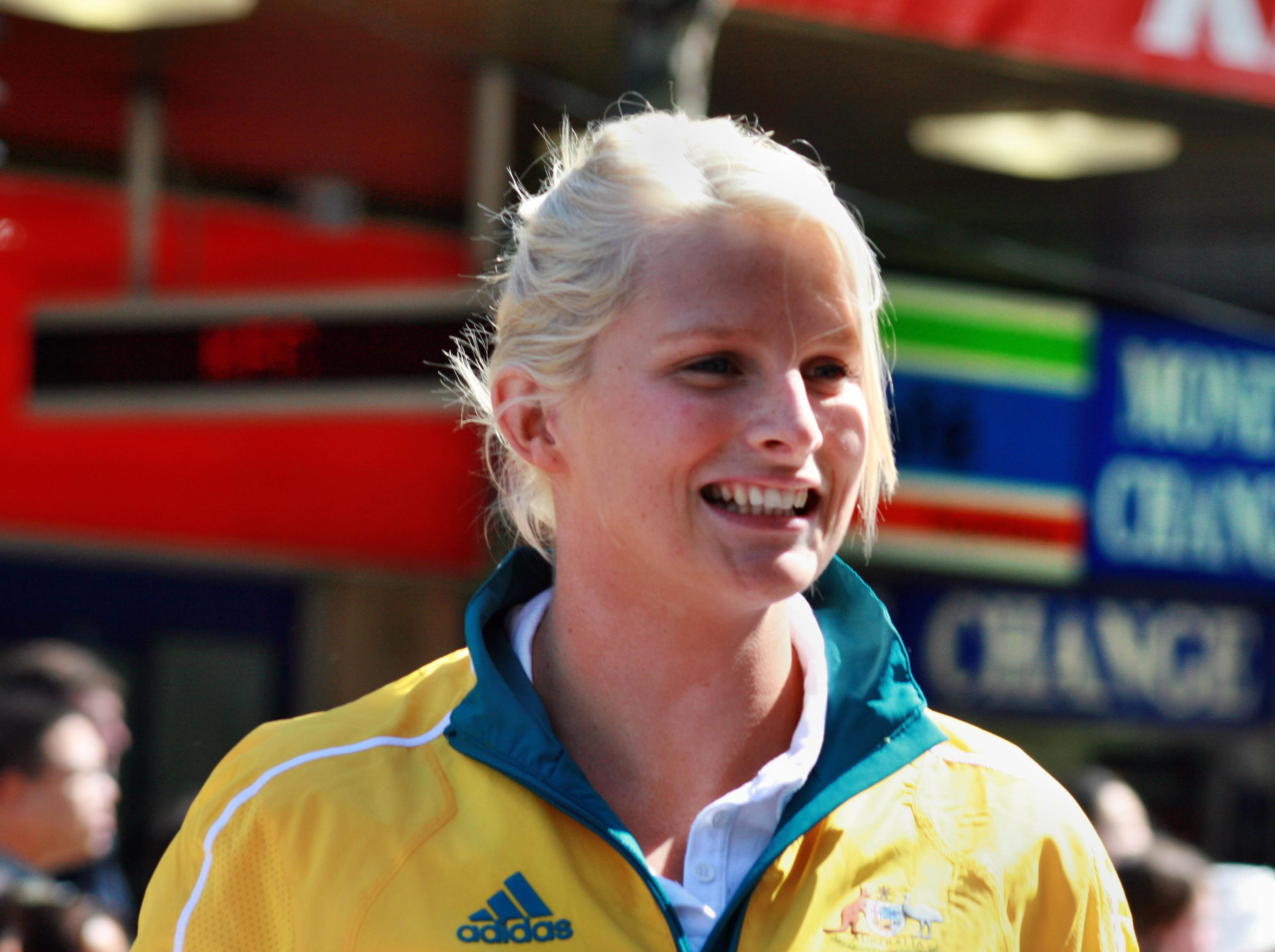 Australian swimmer Leisel Jones at the Melbourne homecoming parade for 2008 Olympic Team.